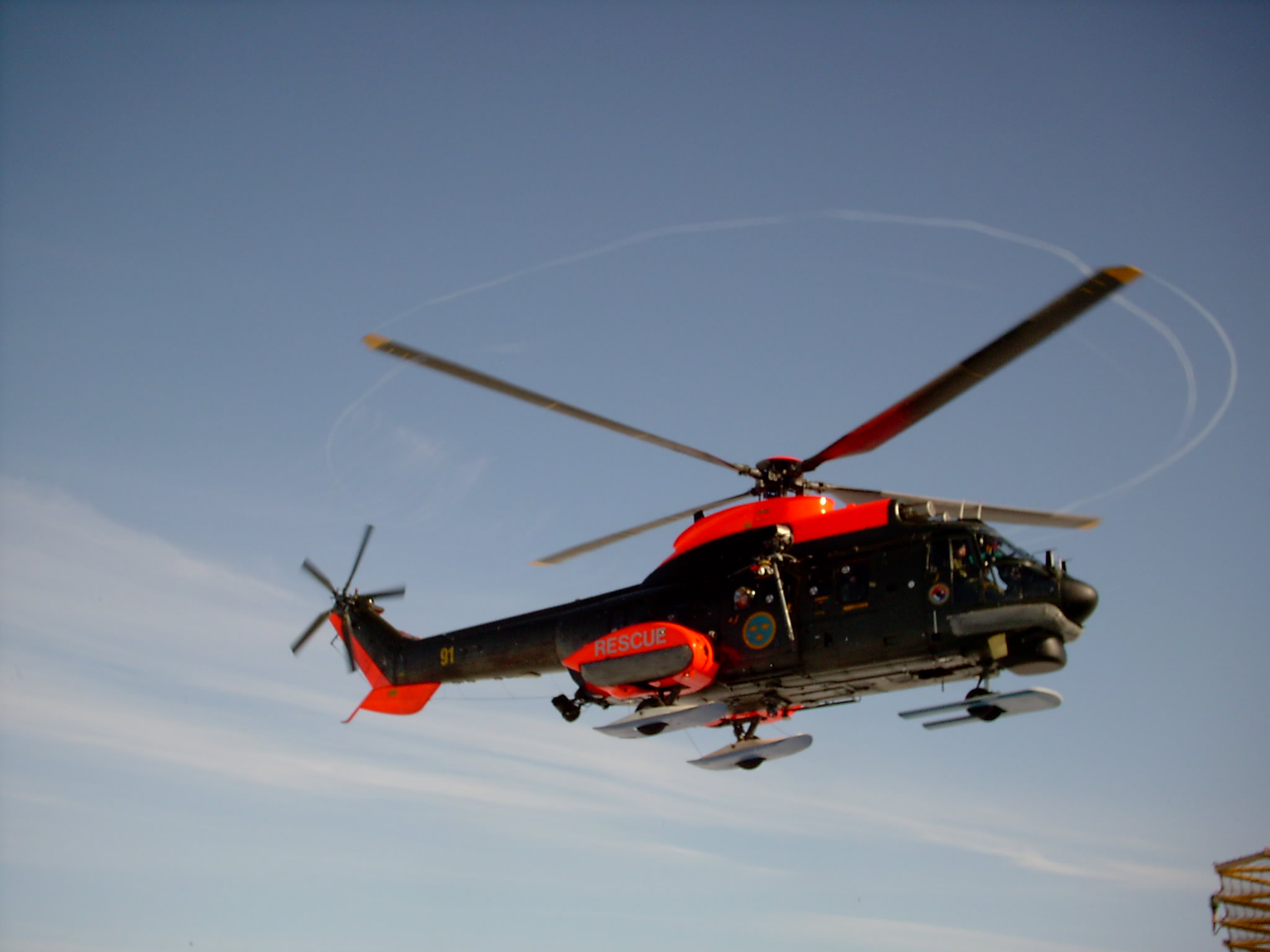 Eurocopter Super Puma of the Swedish 1st Helicopter Squadron, 1st Helicopter Flotilla